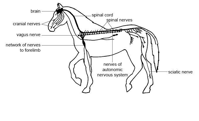 Labelled diagram of the nervous system of a horse drawn by J. Ruth Lawson, Otago Polytechnic, Dunedin, New Zealand, 2008.